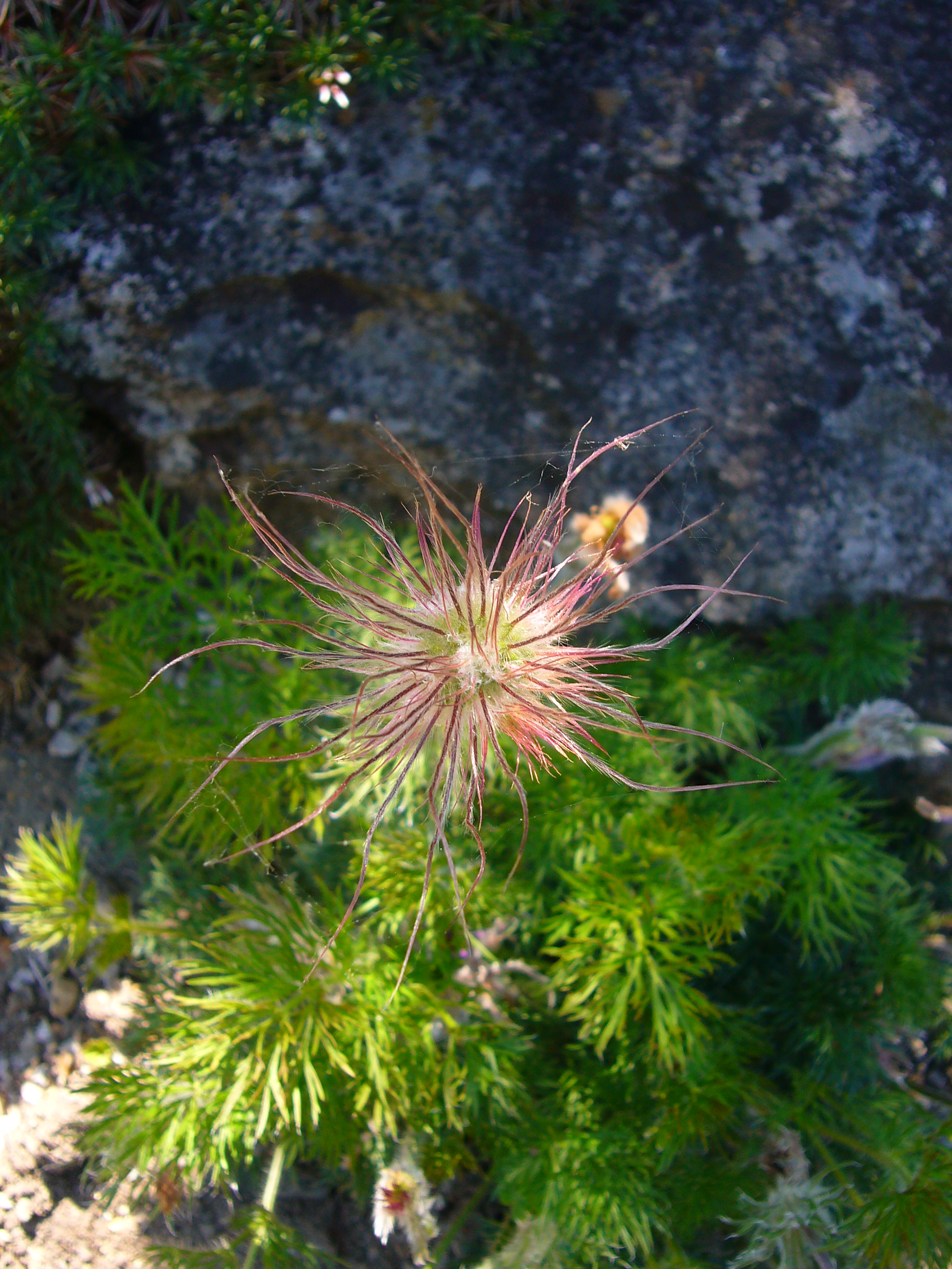 Pulsatilla vulgaris Mill. (flower), photo taken in the Cambridge University Botanic Garden